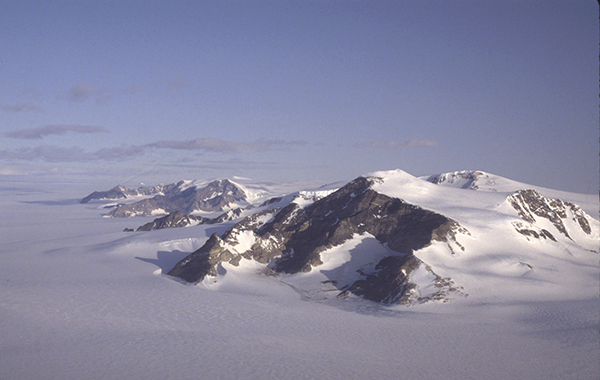 View to the east of Mt. Luyendyk, a summit in the western Fosdick Mountains, Antarctica. The summit is named for Bruce P. Luyendyk, professor (emeritus), University of California - Santa Barbara, in recognition of his contributions and discoveries in ground- and ocean-based Antarctic research, 1989-2015. Photo credit: C Siddoway.